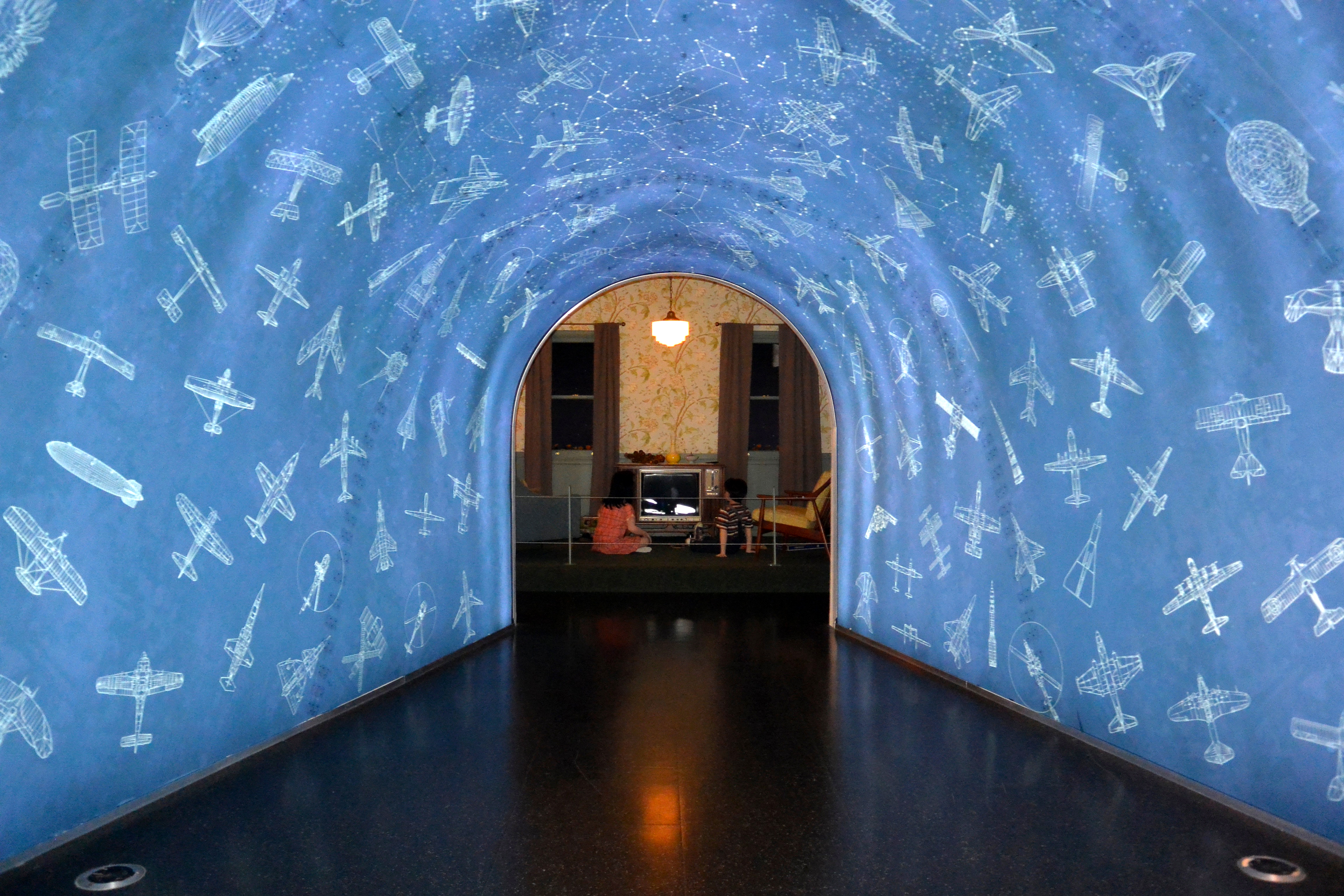 leonardo